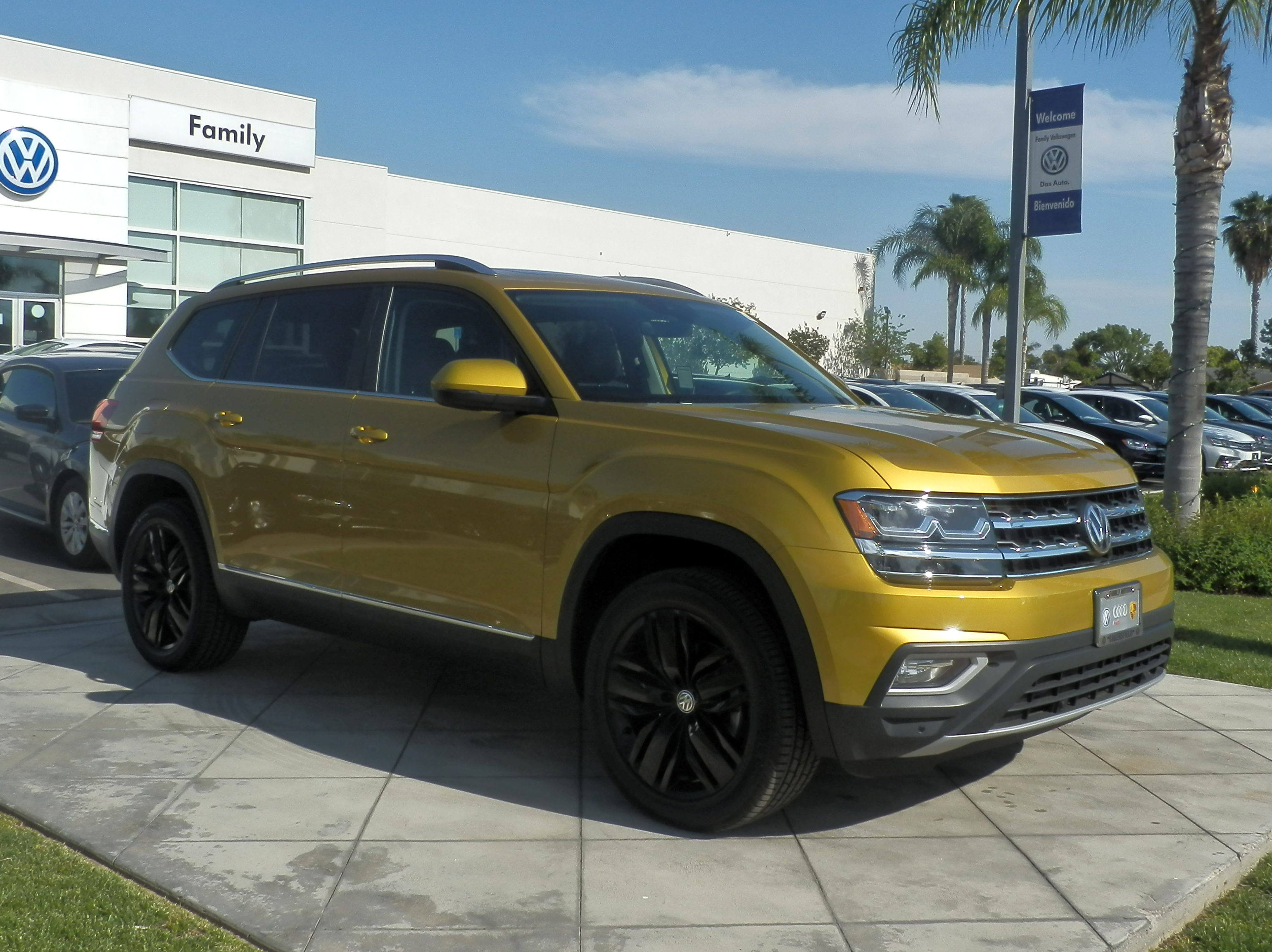 VW Atlas in Bakersfield